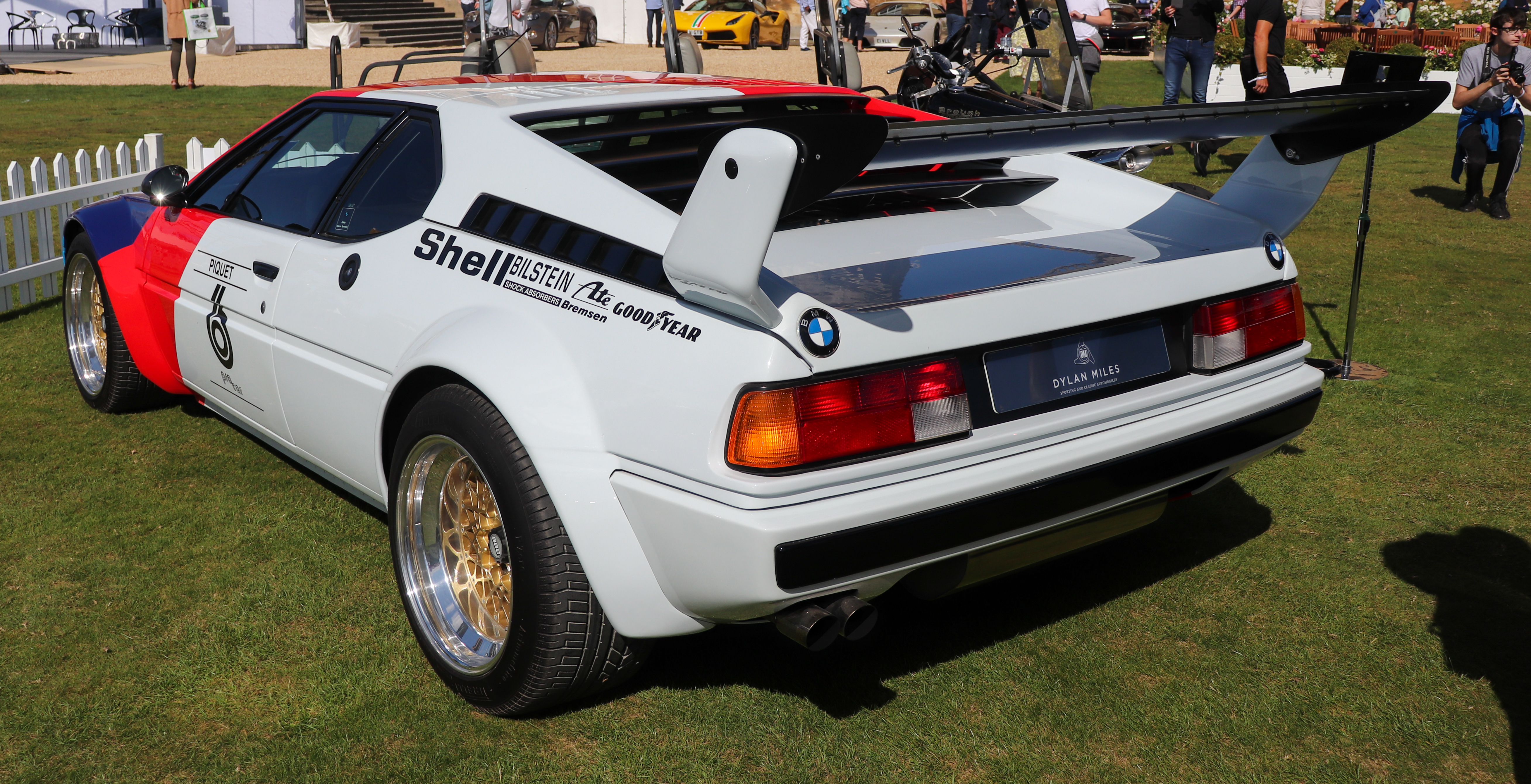 1980 BMW M1 (BMW Motorsport M1 Procar body) Rear Taken at the Salon Privé Concours d'Elegance Classic Car Motor Show 2019, Blenheim Palace